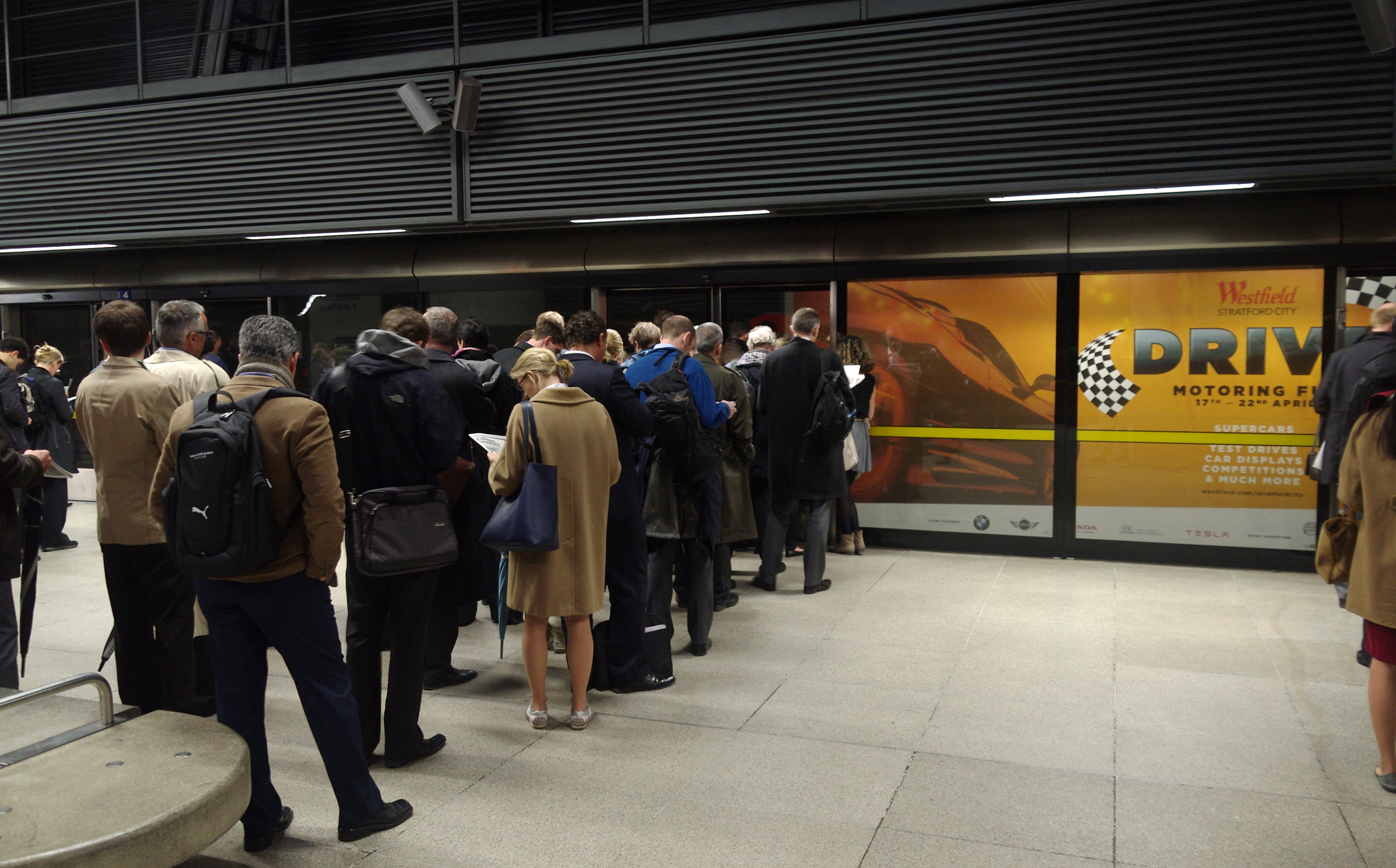 The throng of people: rush hour at Canary Wharf tube station. To give a sense of perspective, a train had left about 10 seconds previously.